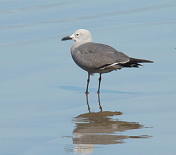 Gaviota Garuma, the Grey Gull, near Los Vilos, Chile. In context at